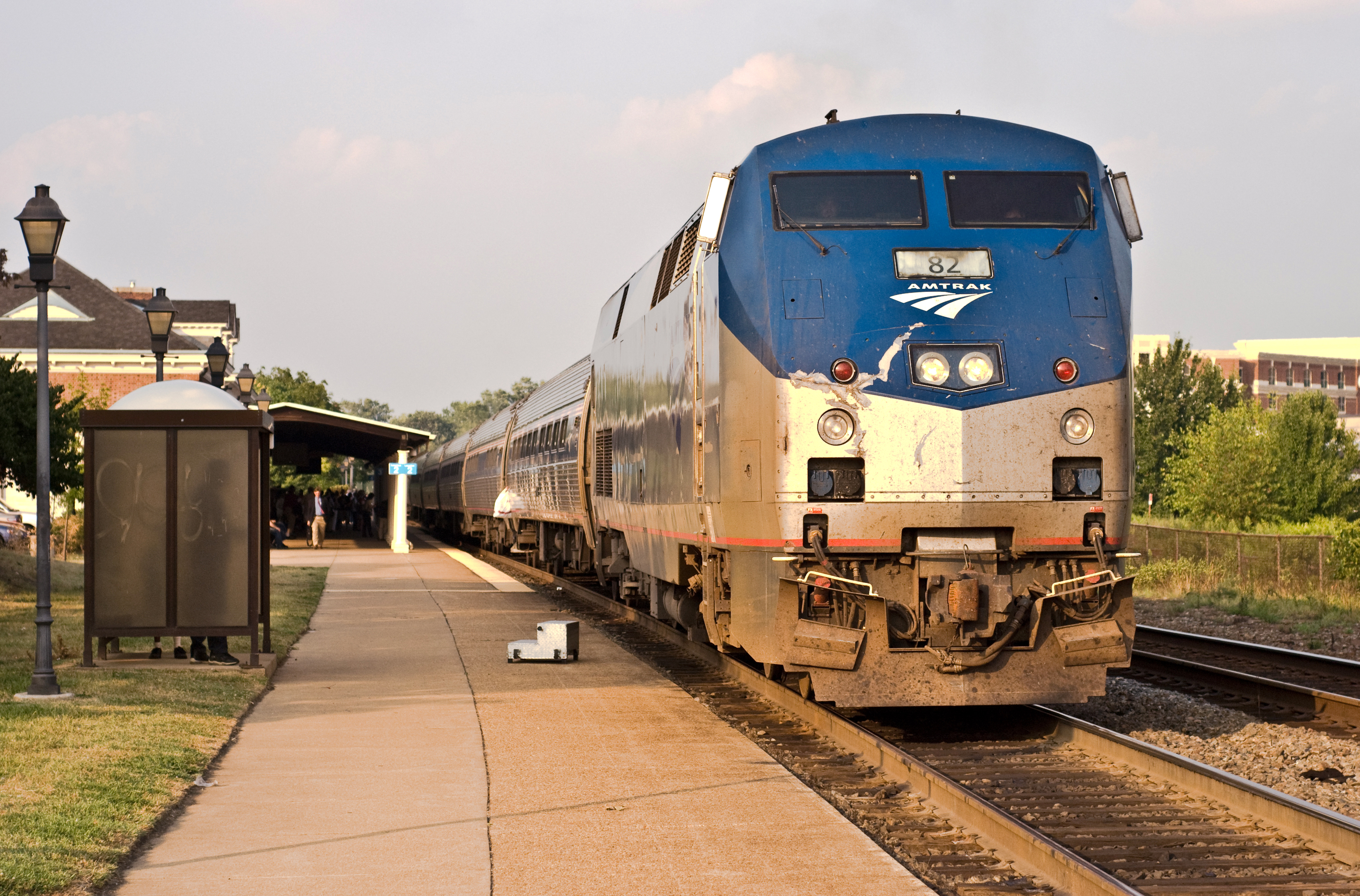 Alexandria Union Station Original description: Amtrak 82 stops at the station in Alexandria, VA on a sunny Friday evening.